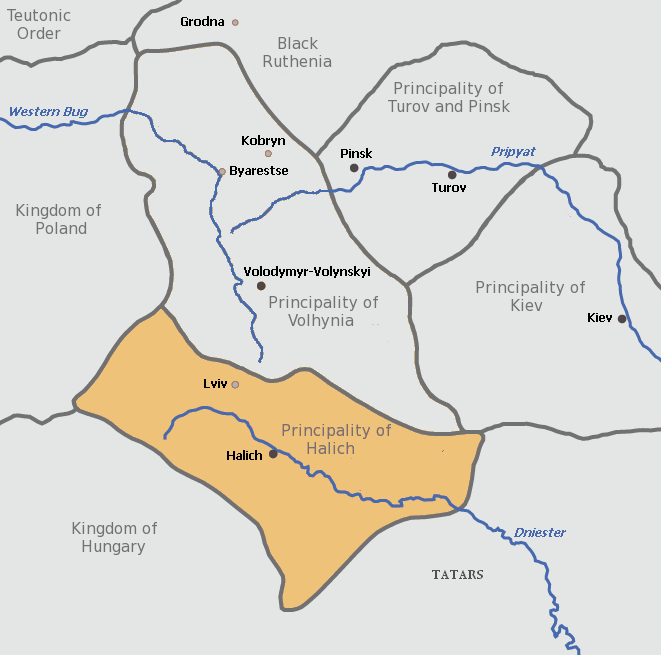 Map of the Principality of Halich, before the 13th century.